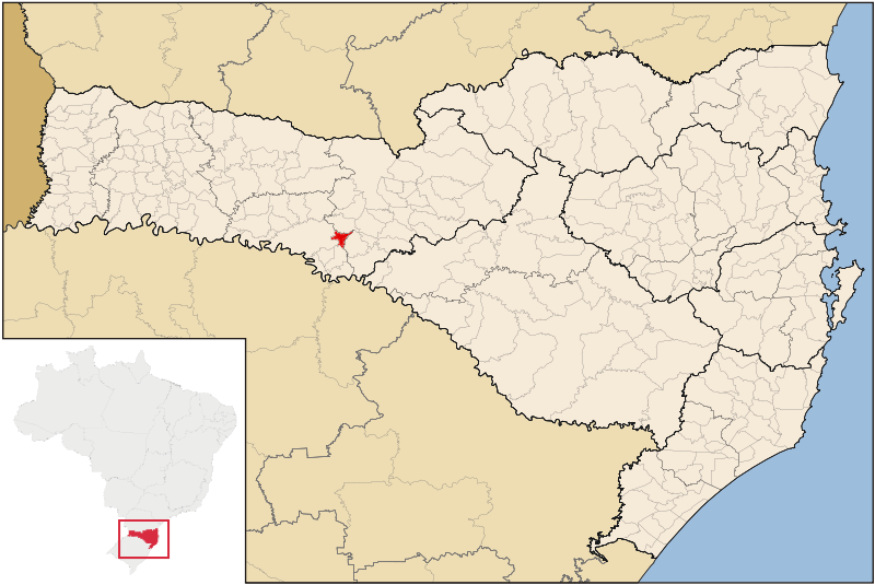 Location map of the municipality of Castelo Branco, Santa Catarina, Brazil.